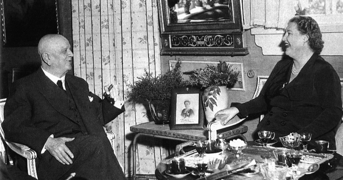 The Norwegian singer Kirsten Flagstad visits Jean Sibelius at his home, Ainola, in Järvenpää, Finland, on June 7th, 1952.